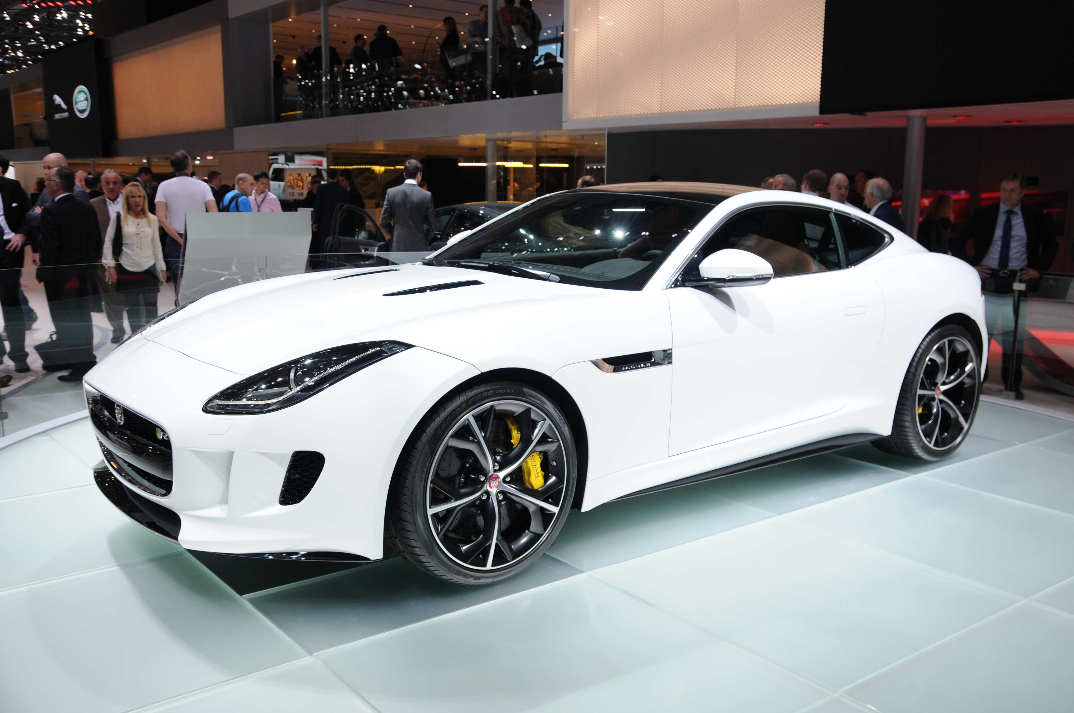 Geneva Motor Show 2014 (photo taken on the first press day)